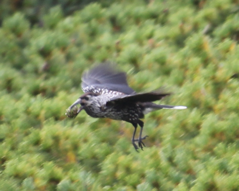 Nucifraga caryocatactes and Pinus pumila in Mount Ontake, Nagano prefecture, Japan.